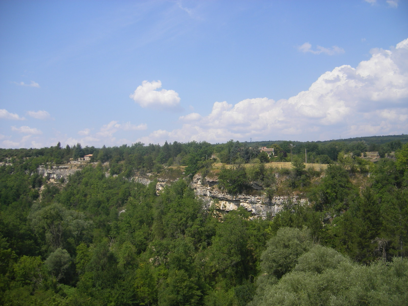 Landscape at Céreste (from the N100 route)